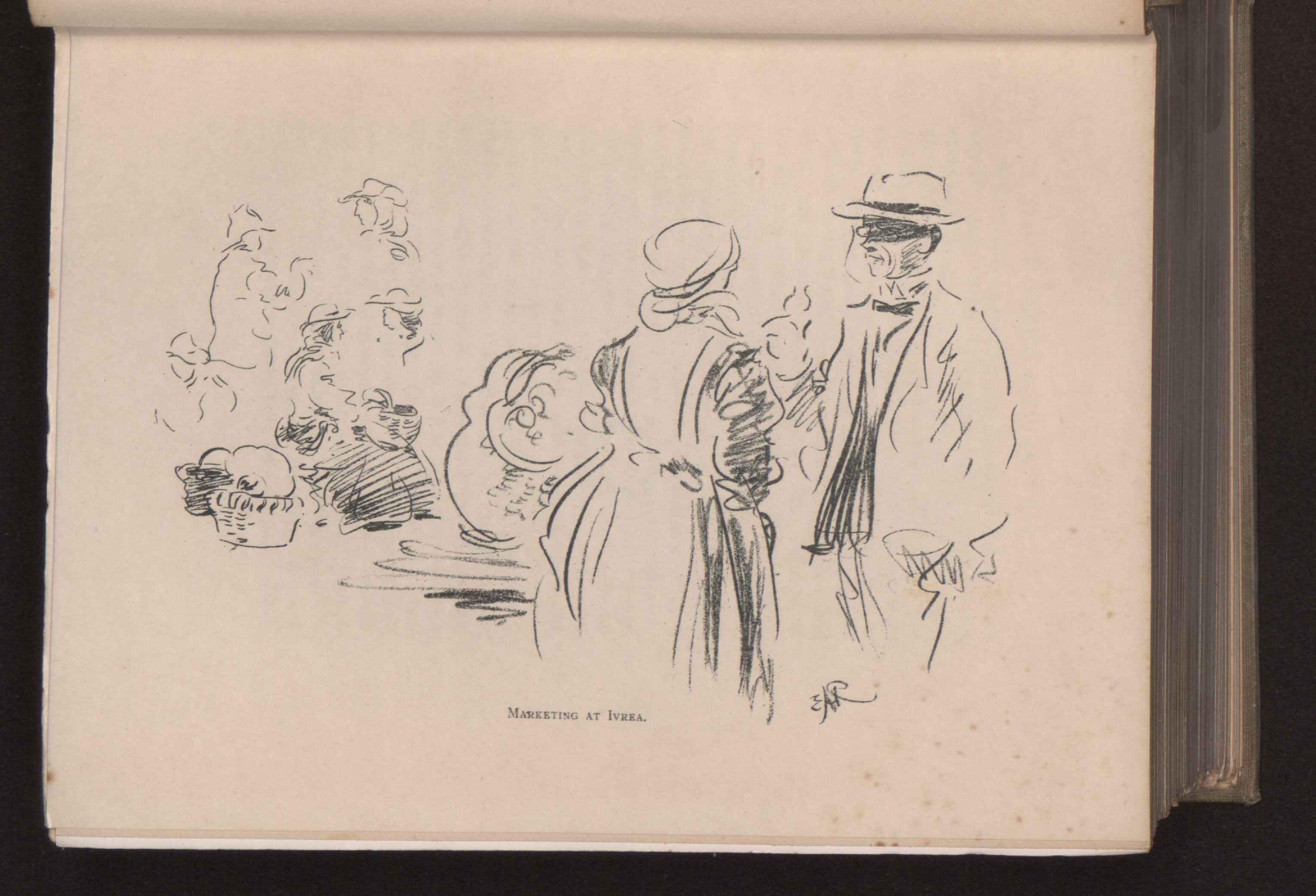 Illustration from Paul George Konody, Through the Alps to the Apennines, 1911